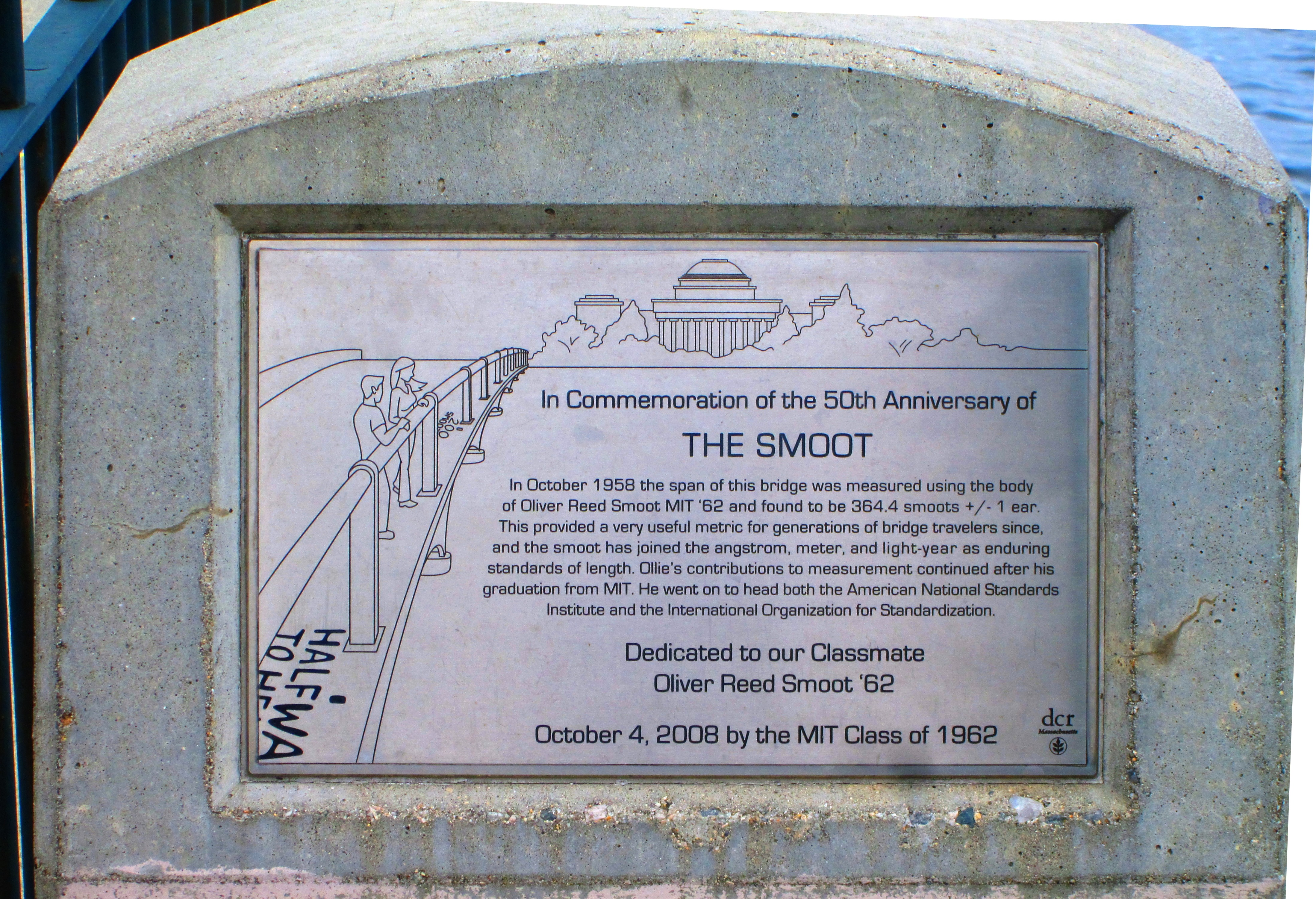 Plaque commemorating the measuring in October 1958 of Harvard Bridge using the height of MIT student Oliver Smoot as a unit of measurement, the smoot.